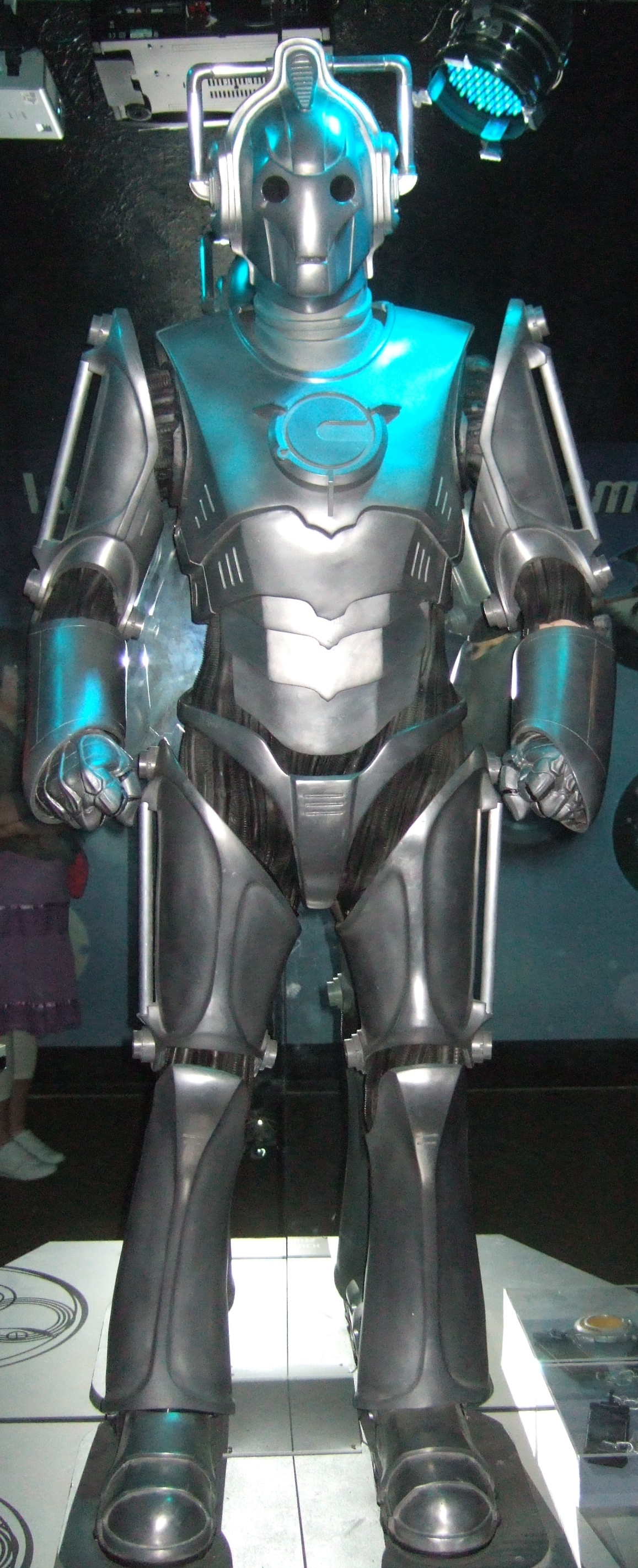 Cyberman from Doctor Who Doctor Who Experience